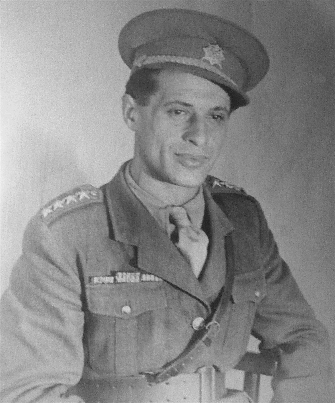 Arnošt Steiner (* January 12, 1915 Třinec - October 9, 1982 Brno) was a Czech soldier, colonel and a hero of the second world war. In the 1st Czechoslovak Army Corps (under the command of Ludvík Svoboda) he took a part in all battles from Sokolov via Kiev, Bílá Cerkev, Žaškov and Dukla. Together with their comrades, he arrived in Prague in May 1945. He was legendary warrior, especially in the battles at Dukla during conquering the point 534 and Hyrowa Mountains, when he gained the nickname Železný Arnošt (Iron Arnošt) because he survived even in that situations where it was not possible to survive (according to his comrades). He was awarded the "Czechoslovak War Cross 1939", two Czechoslovak medals "For Gallantry"", "Sokolov Memorial Medal" and a number of other military decorations. In the photo in year 1946 in the rank of captain.